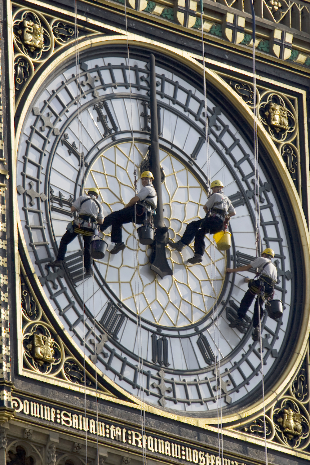 The Westminster Clock ("Big Ben") being cleaned in August, 2007